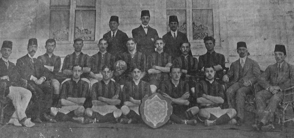 Fenerbahce's first championship